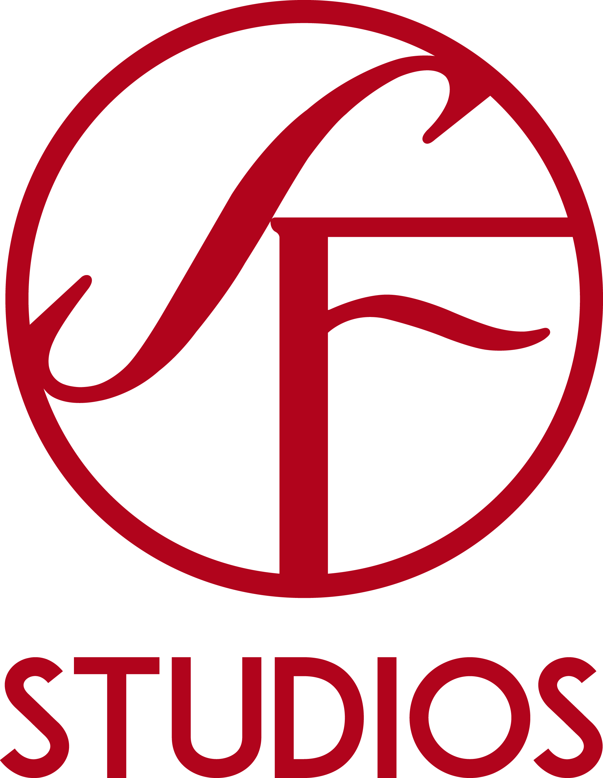 SF Studios logo